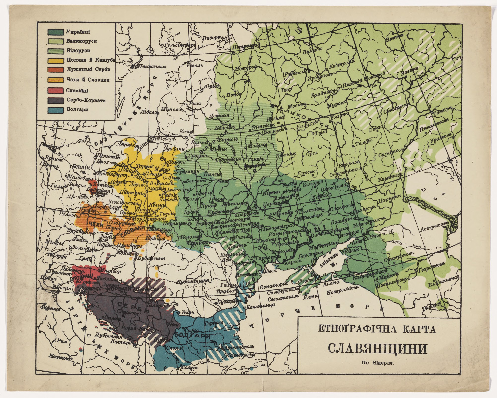 Ukrainian translation of the "Ethnographic map of Slavs" ("Národopisná mapa Slovanstva") by Lubor Niederle that was first published in 1912.